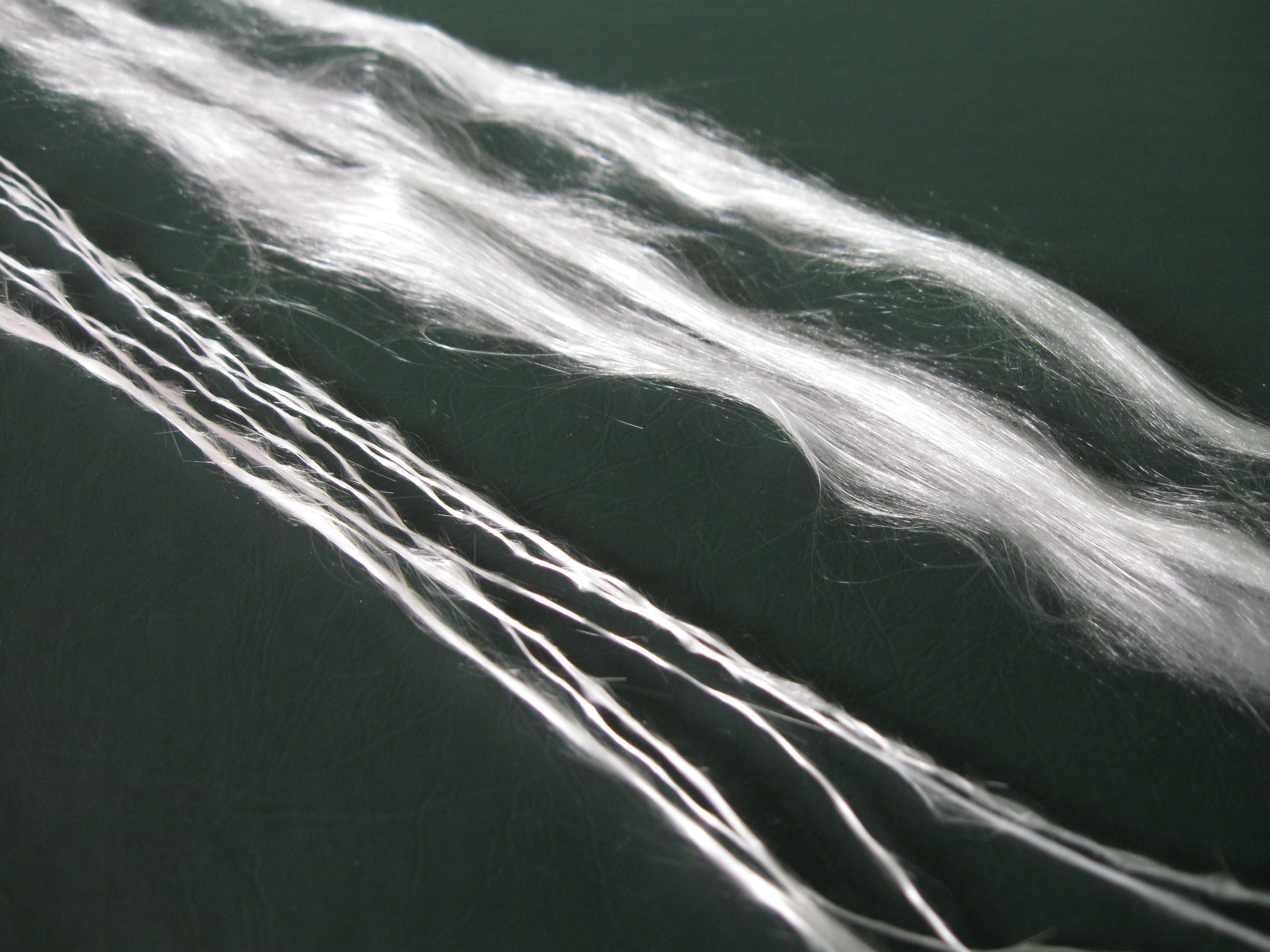 Glass fiber